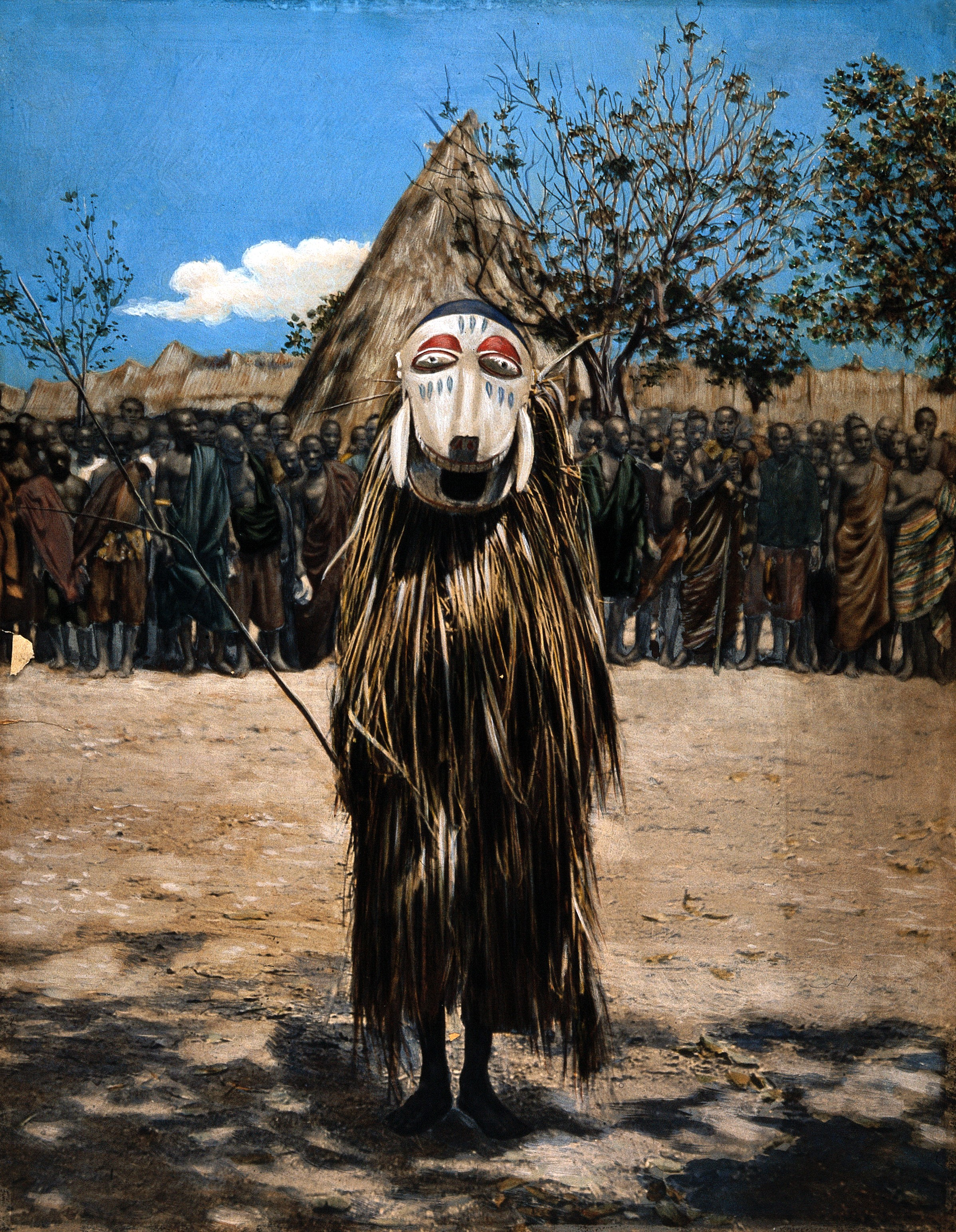 An African shaman or medicine man dressed in ritual mask and costume. Coloured photograph. Iconographic Collections